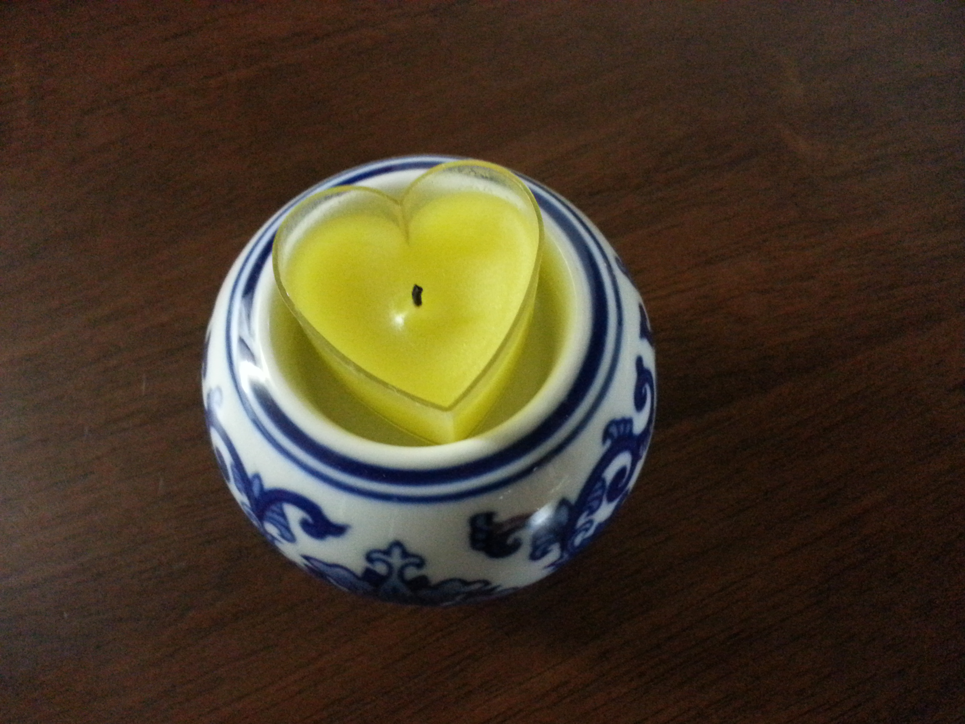 An yellow, heart-shaped candle.